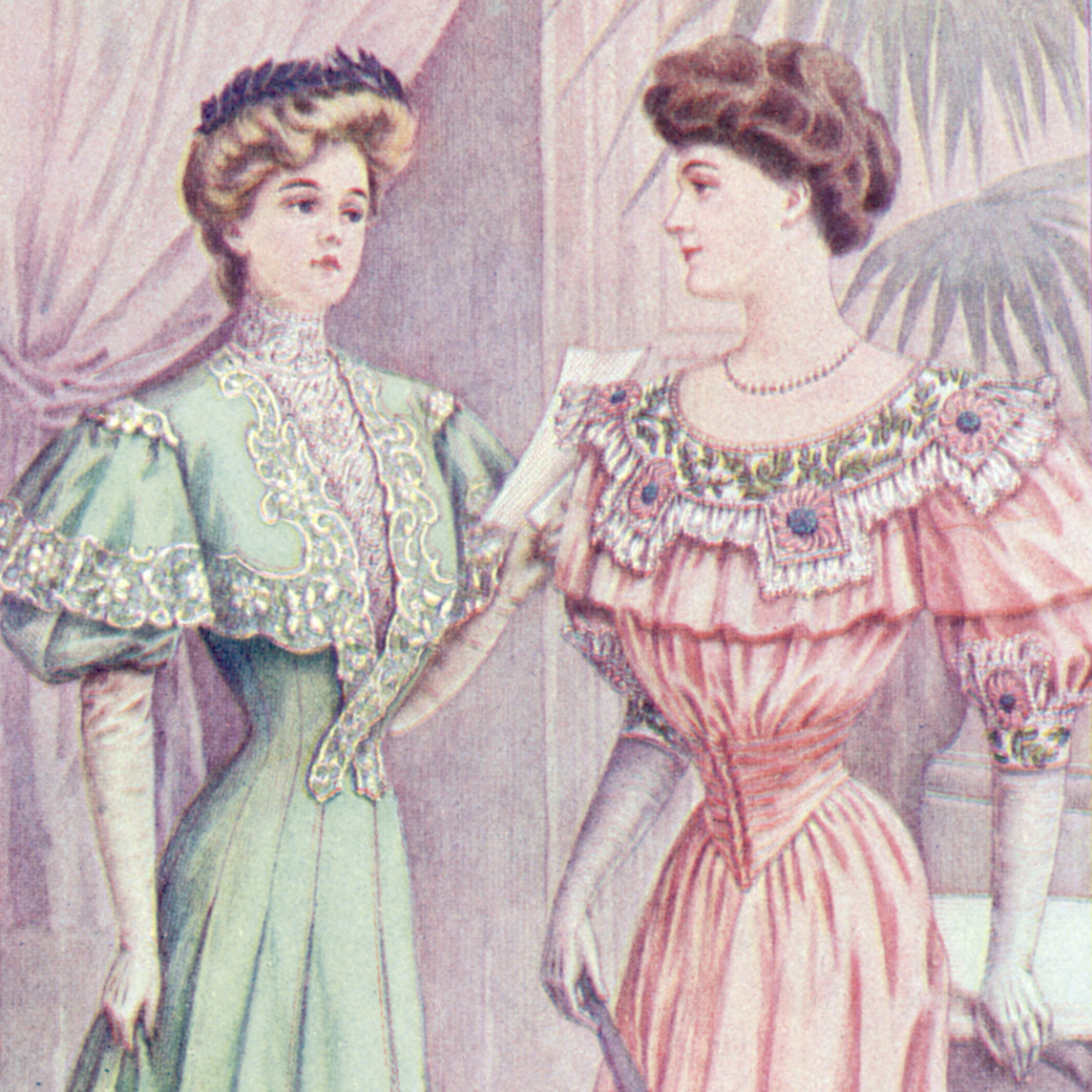 This graceful princess dress (No. 8654) is of Nile-green French voile, with dainty touches of oriental all-over lace and banding on the waist portion. A soft shade of pink Eolienne was used for this charming evening costume (No. 8656), and Persian trimming and Brussels lace afforded adornment.